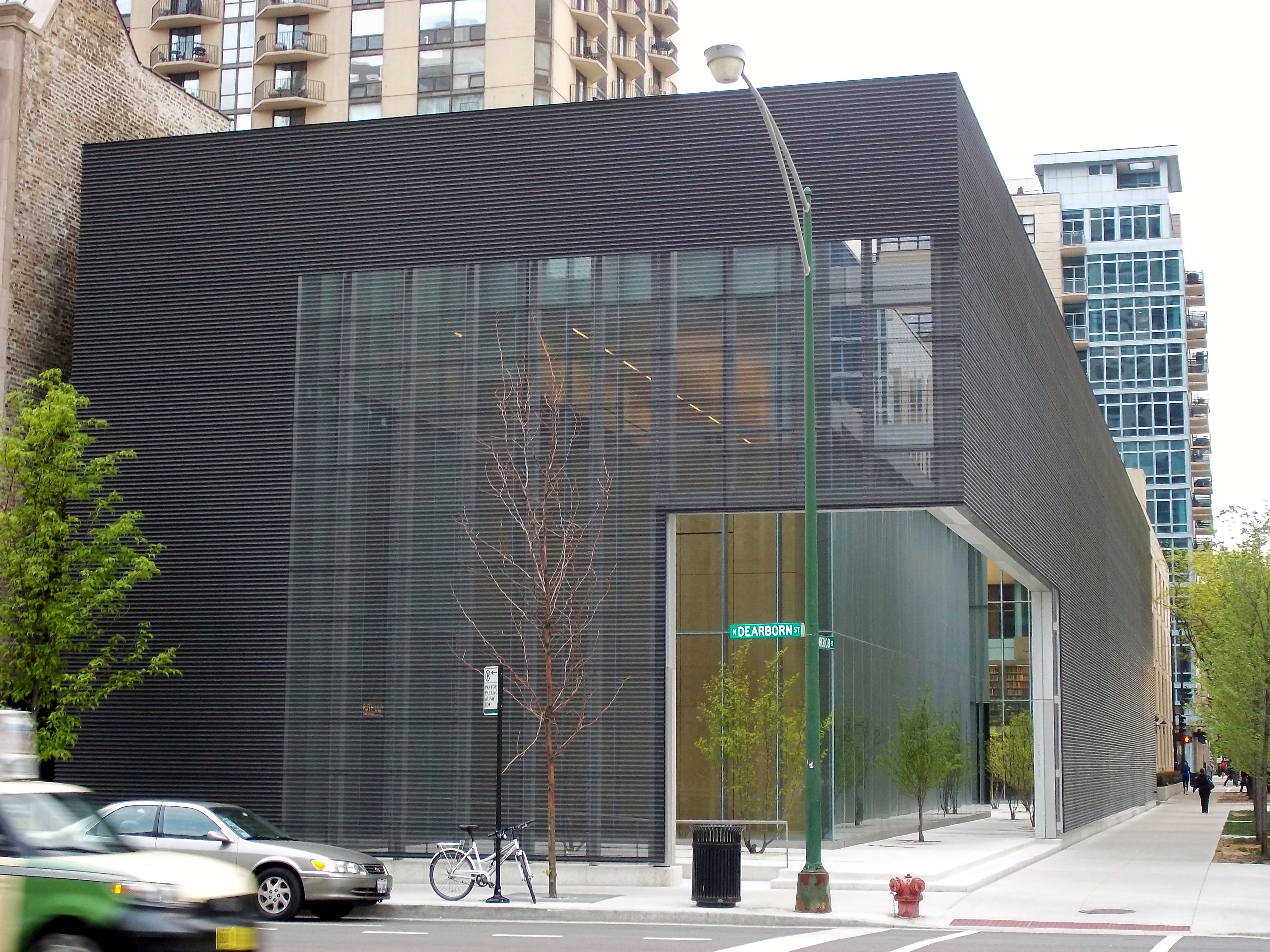 Poetry Foundation's Poetry Center in Chicago